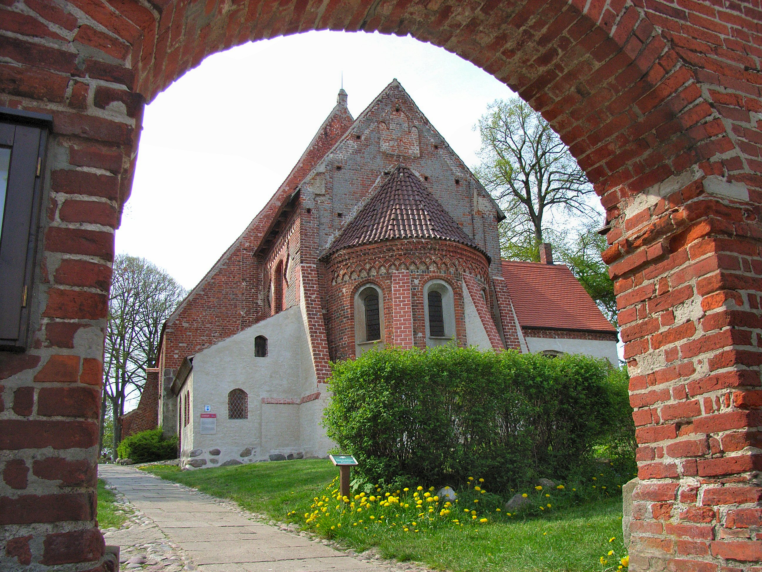 the church in Altenkirchen on the island Rügen